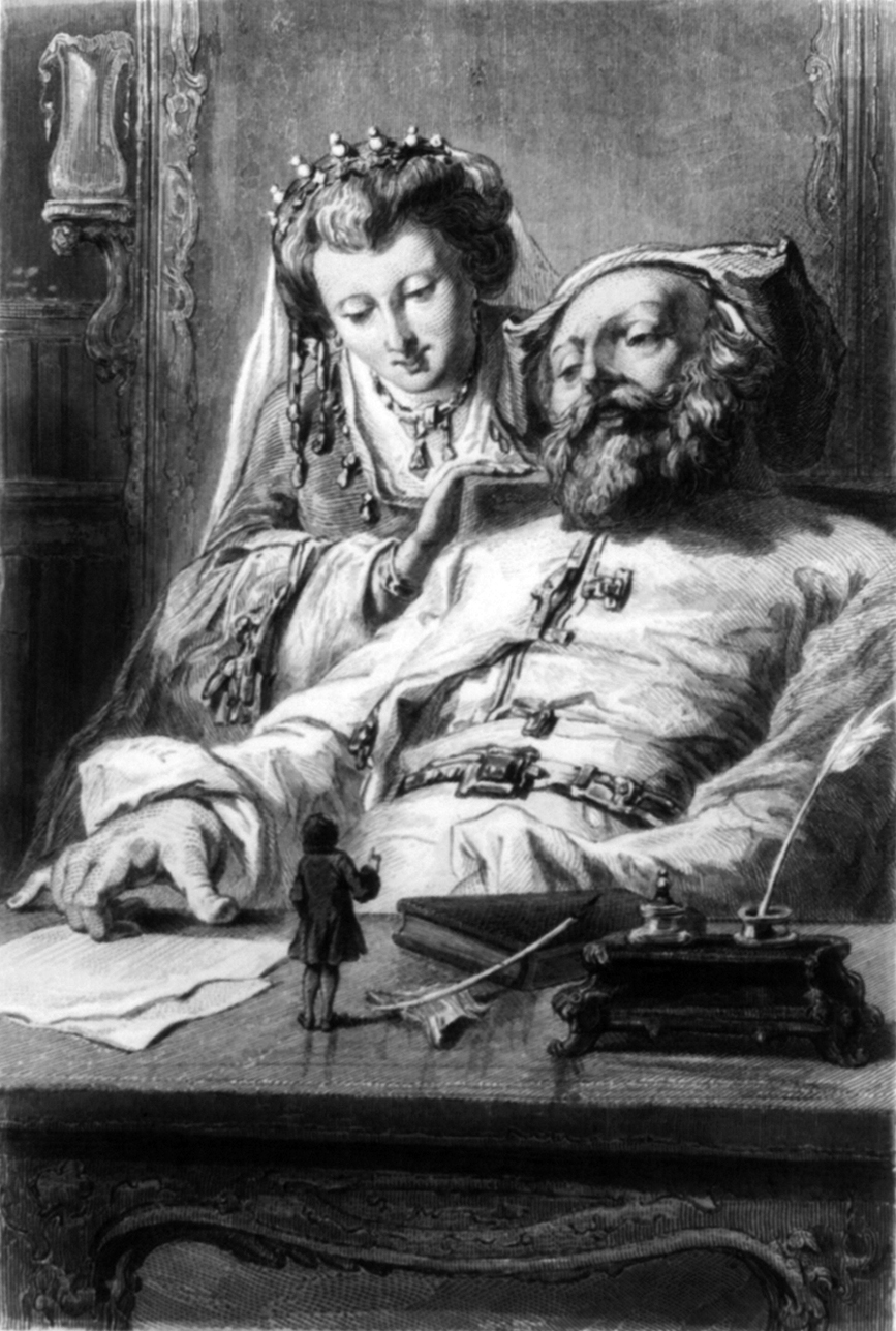 Gulliver addressing the Brobdingnagian king and queen, from an 1850s French edition of Gulliver's Travels. Caption: "Je répondis avec justesse a toutes les questions du roi" ("I accurately answered all the king's questions")